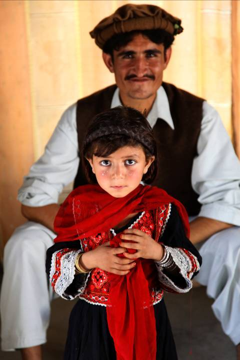 An Afghan family awaits medical care in the Khowst province of Afghanistan on Sep. 29, 2009. (U.S. Army photo by Spc. Matthew Freire / Released)